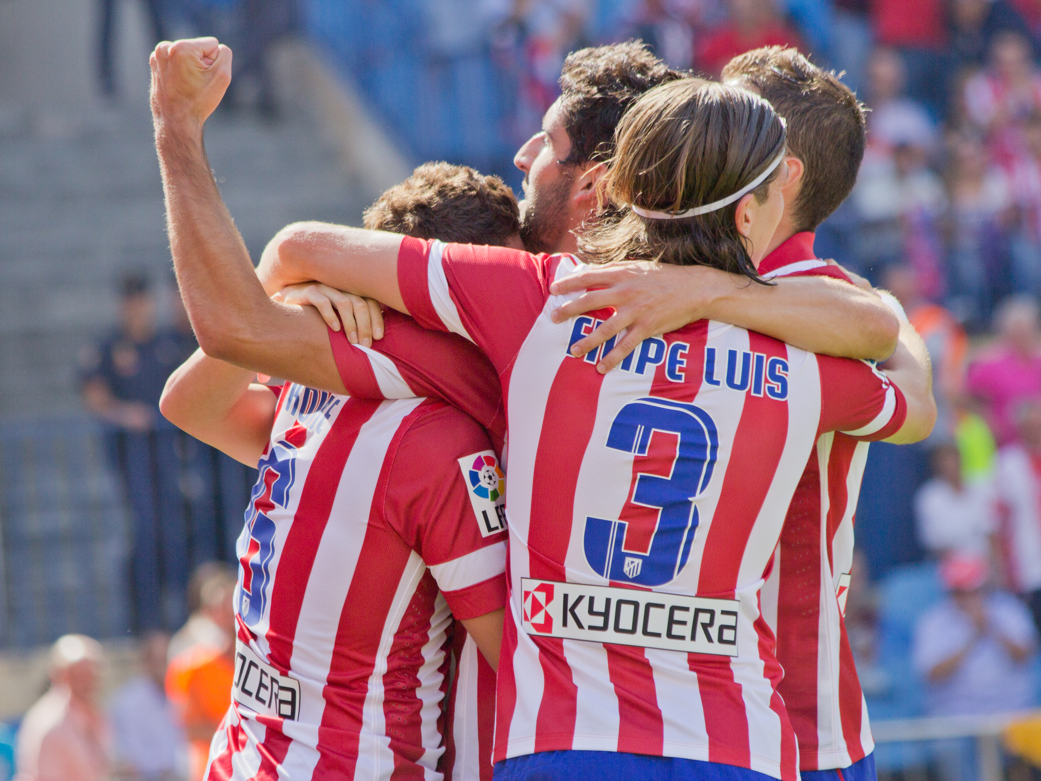 Some players of Atlético de Madrid celebrating a goal.